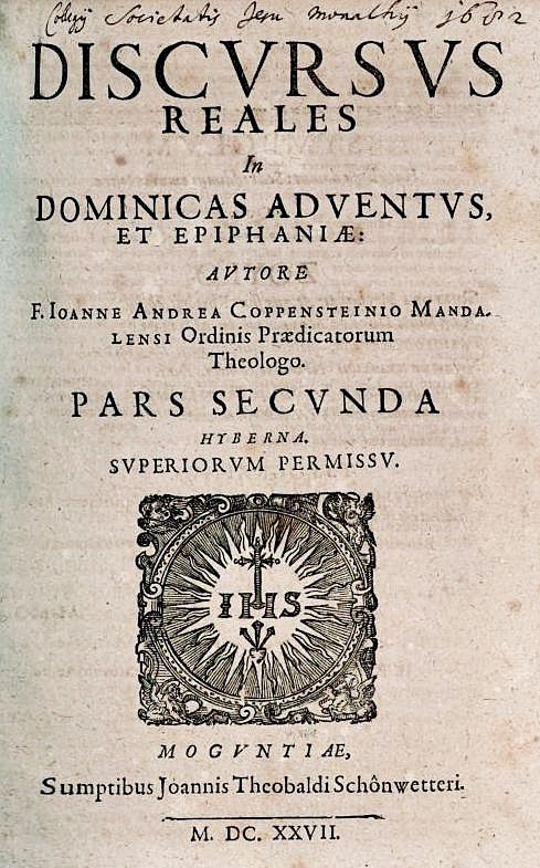 Buchtitelblatt (1627) eines Werkes von Johann Andreas Coppenstein († 1638), mit Vermerk seines Geburtsortes Mandel